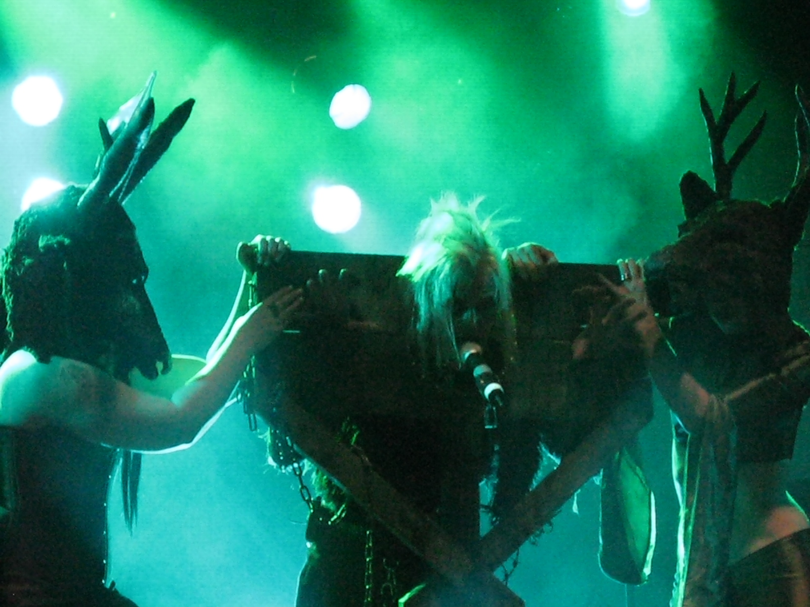 Snowy Shaw singing "The Wisdom And The Cage" from the stocks. Therion at The Fridge in Brixton, 2007-12-16.